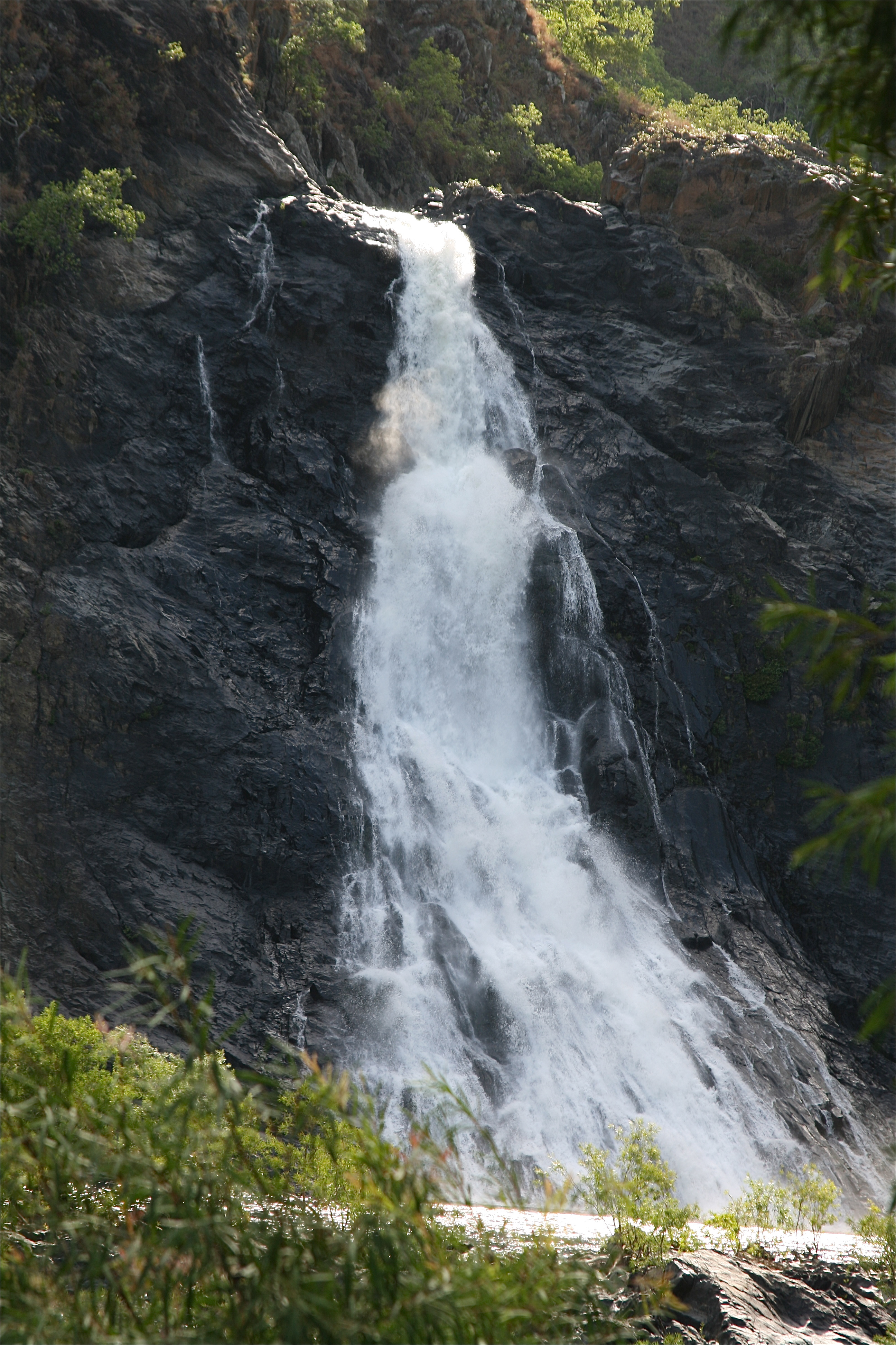 Wujul-Wujul Falls, Queensland, Austrailia